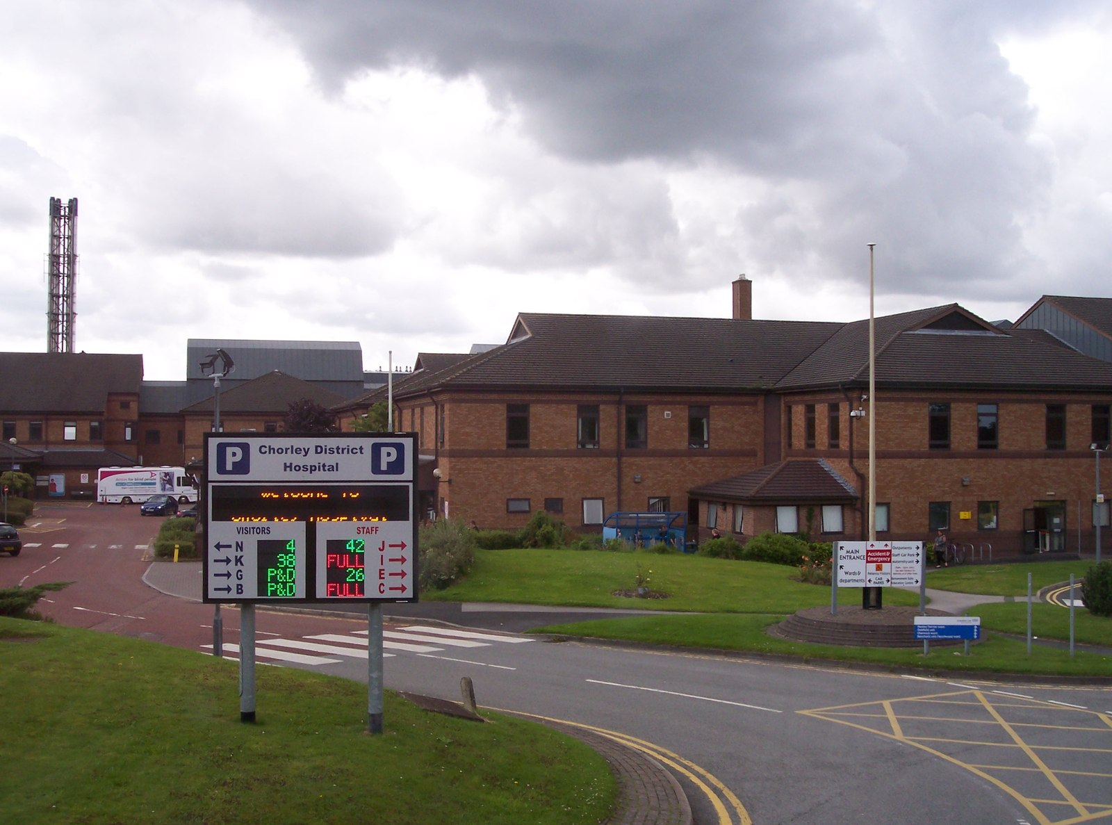 Main entrance to Chorley District Hospital